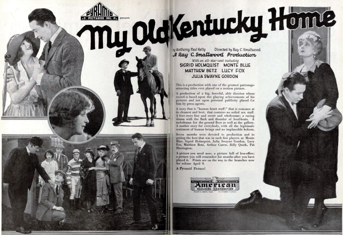 Advertisement for the American film My Old Kentucky Home (1922) with Monte Blue, Sigrid Holmquist, Arthur Edmund Carewe, Lucy Fox, Matthew Betz, Julia Swayne Gordon, Frank Currier (as Colonel Sanders), and Billy Quirk, on pages 22 and 23 of the April 15, 1922 Exhibitors Herald.